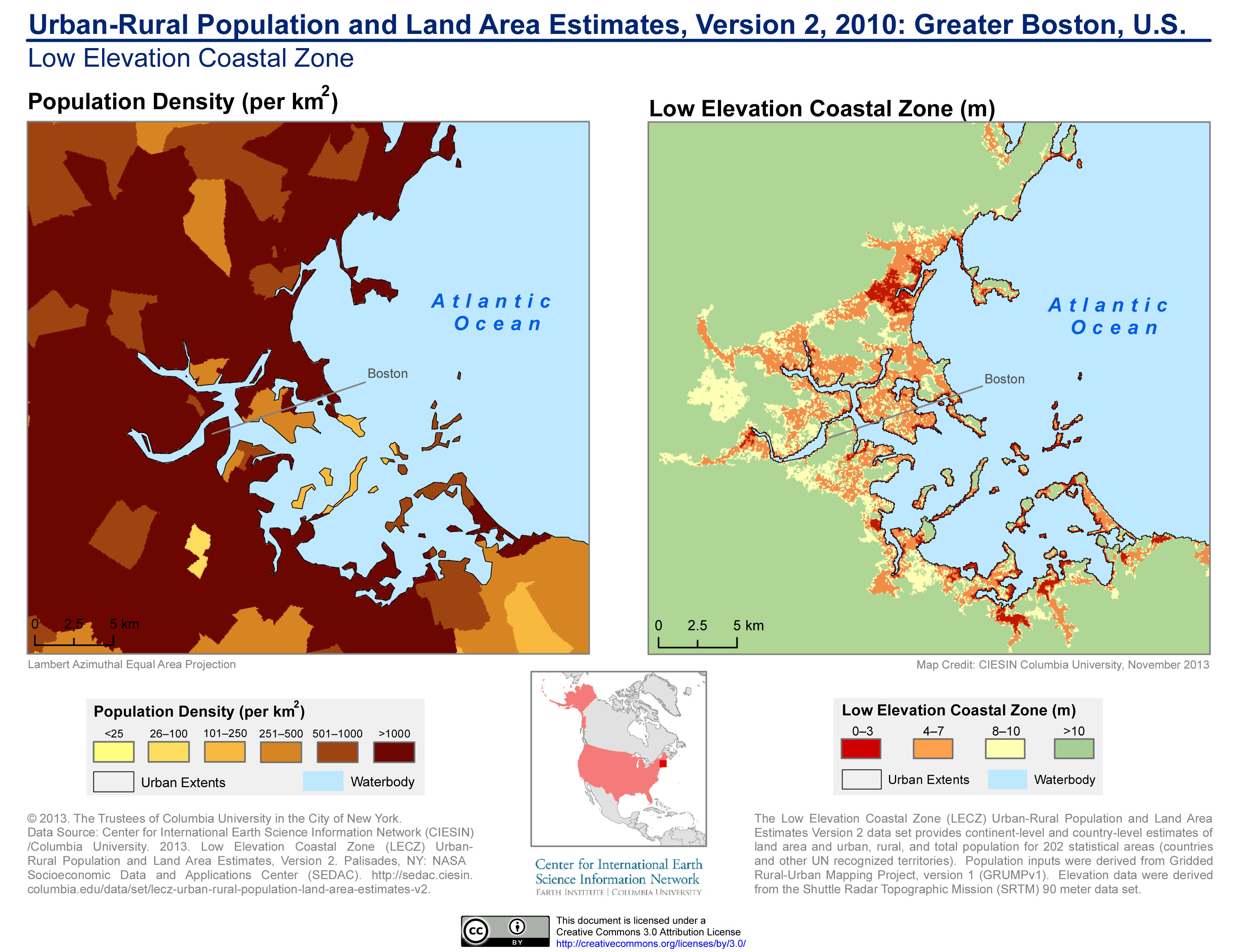 The Low Elevation Coastal Zone (LECZ) Urban-Rural Population and Land Area Estimates Version 2 dataset provides continent-level and country-level estimates of land area and urban, rural, and total population for 202 statistical areas (countries and other UN recognized territories). Population inputs were derived from Gridded Rural-Urban Mapping Project, Version 1 (GRUMPv1). Elevation data were derived from the Shuttle Radar Topographic Mission (SRTM) 90 meter dataset.